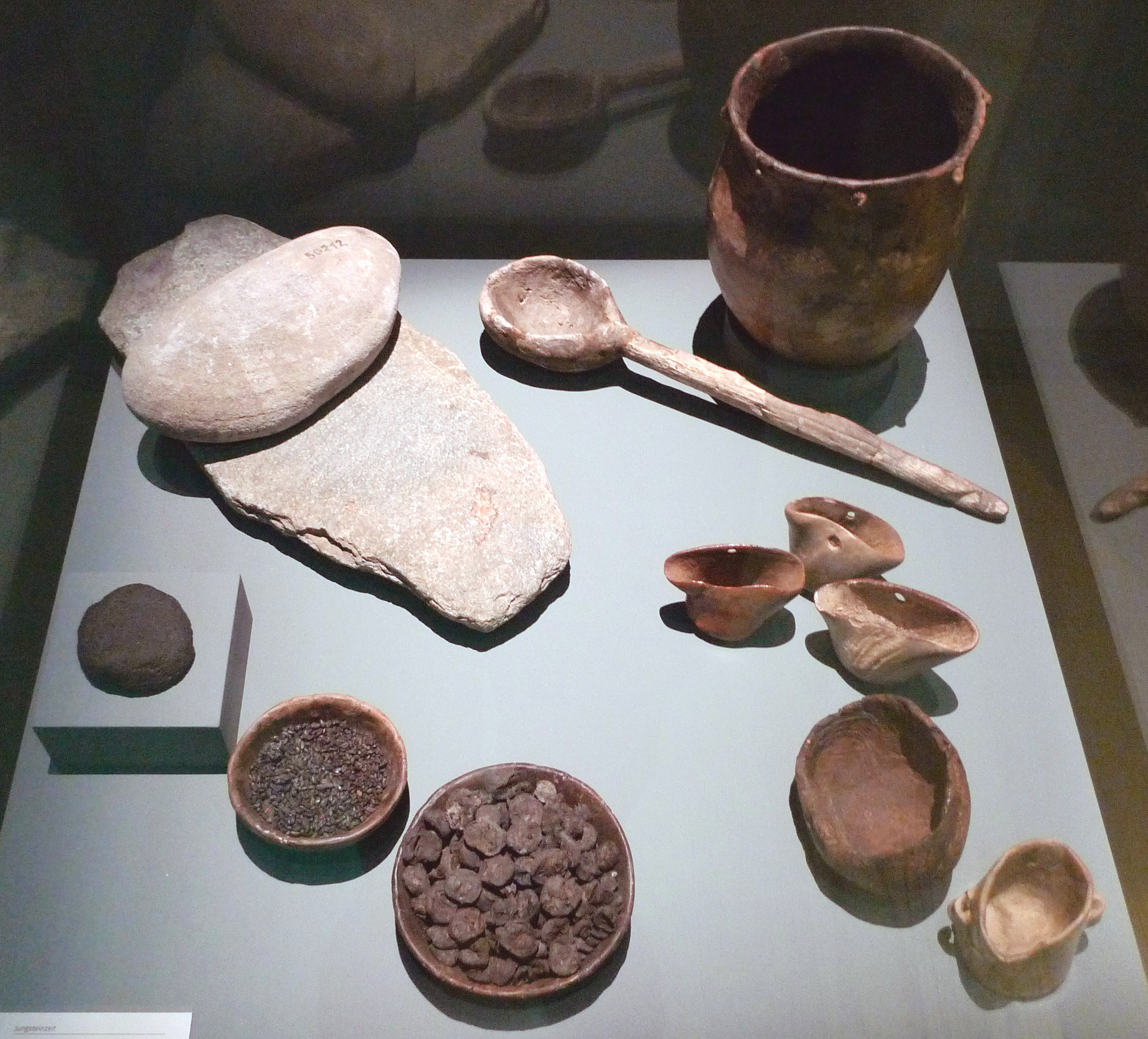 Neolithic cutlery and foodstuffs found at sites in Switzerland. The items include: millstones, charred bread, grains and small apples, a clay cooking pot, and containers made of antlers and wood.